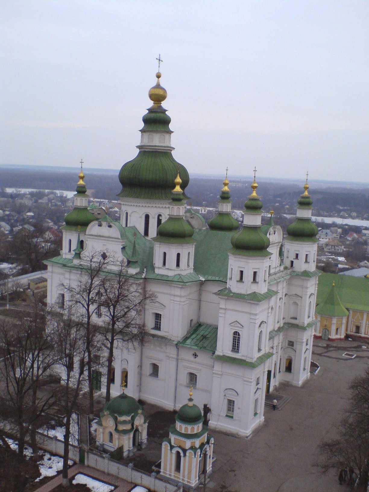 Holy Trinity cathedral (Chernigov)